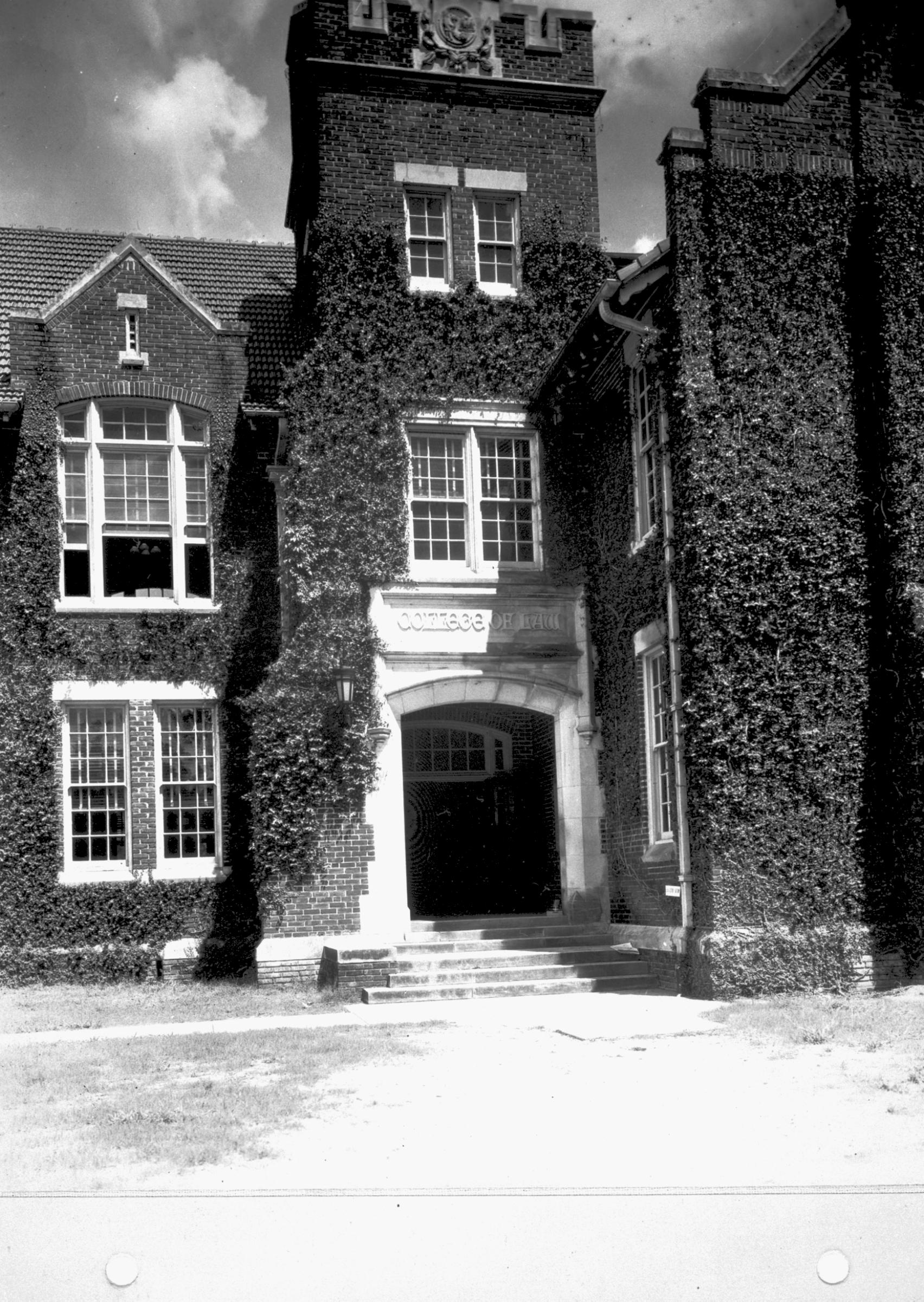 A photo of Bryan Hall